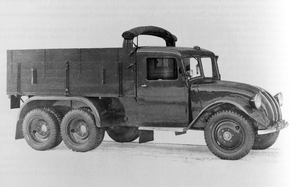 Tatra T82, a light 6×4 lorry version.